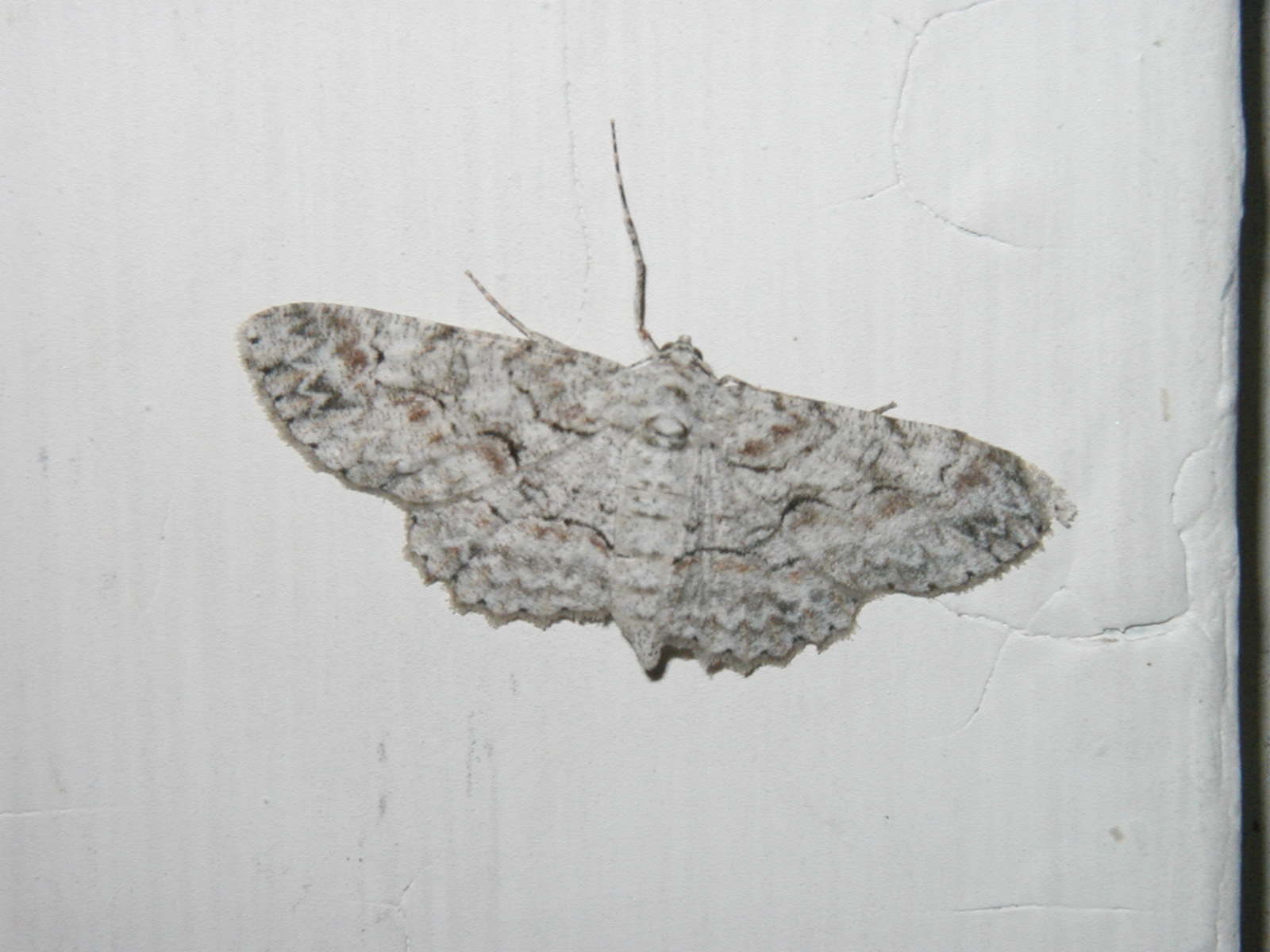 Moth photographed in Denton, Texas, on 12 July, 2009. It was resting on a door jamb towards evening.